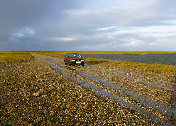 Wattweg nach Mandoe - self taken photo - public domain